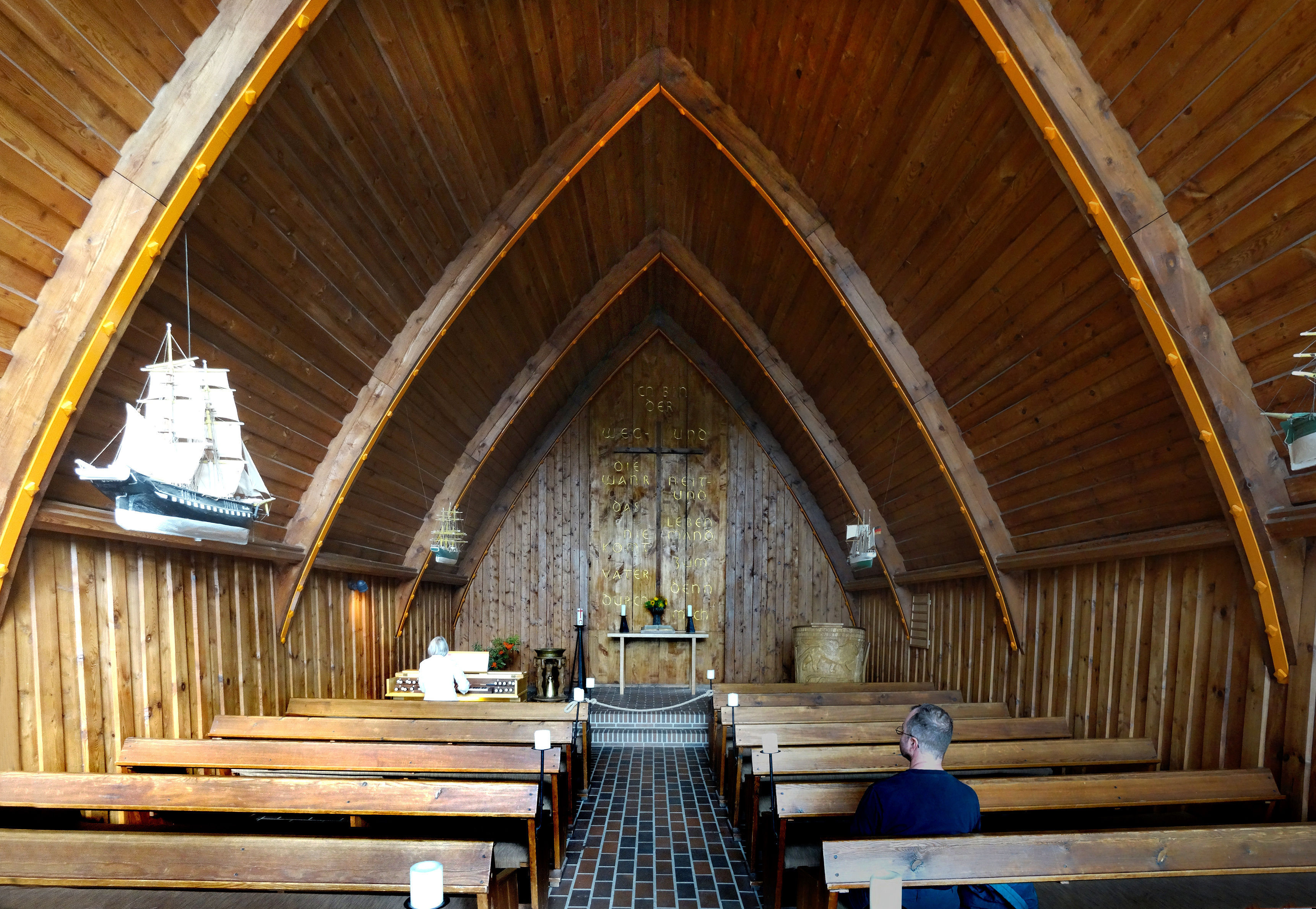 Church of Ahrenshoop